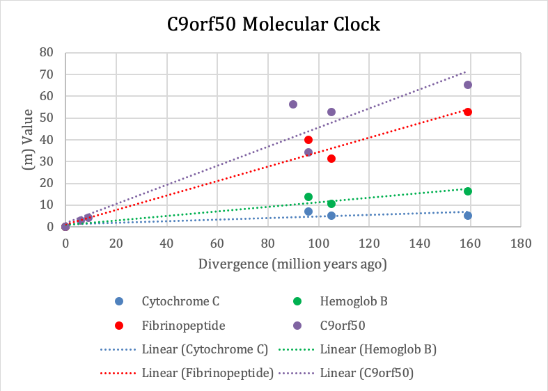 Evolutionary change of C9orf50 over 0-159 million years ago is plotted against cytochrome C, hemoglobin beta, and fibrinogen alpha chain proteins. C9orf50 is shown to have the highest rate of evolutionary change in all proteins using the (m) value which is the sequence similarity to proteins corrected for amino acid changes per 100 residues.